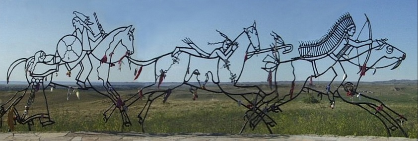 Iron sculpture by Native artist Colleen Cutschall honoring the Native Americans. Placed next to the old memorial for Custer. Commemorates the Native Americans (Crow tribe) who died fighting for their homelands in the 1876 Battle of Little Bighorn. Monument at the Little Bighorn Battlefield National Monument. Credits Reworked version of Image:Little-bighorn-memorial-sculpture.jpg by smial Original-Description: (Uploaded by User:Liftarn) Original Tech.note: The image is composed of three separate images taken from a miniDV-tape. ©2004 Hans Andersen